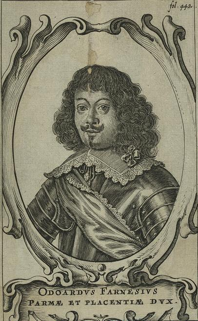 Drawing of Odoardo Farnese, Duke of Parma and Piacenza by an unknown artist